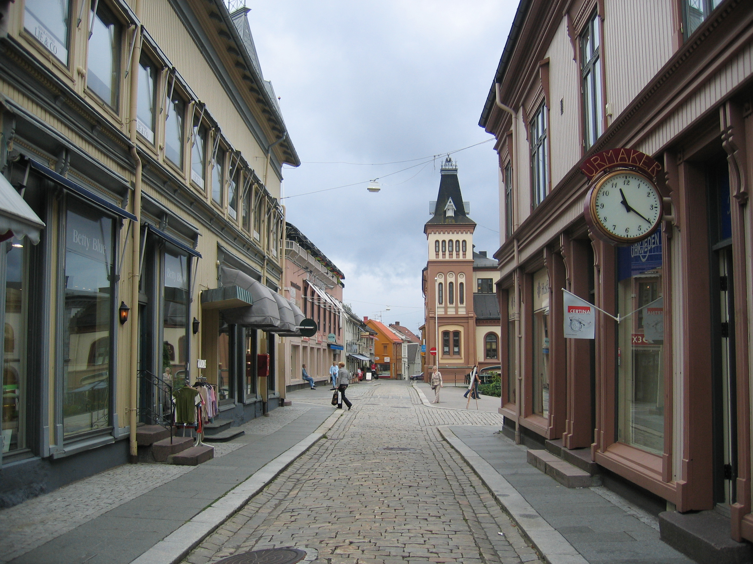 Tønsberg, Øvre Langgate. Street and market place. Medieval structure, buildings of wood and tiles from 19th century.